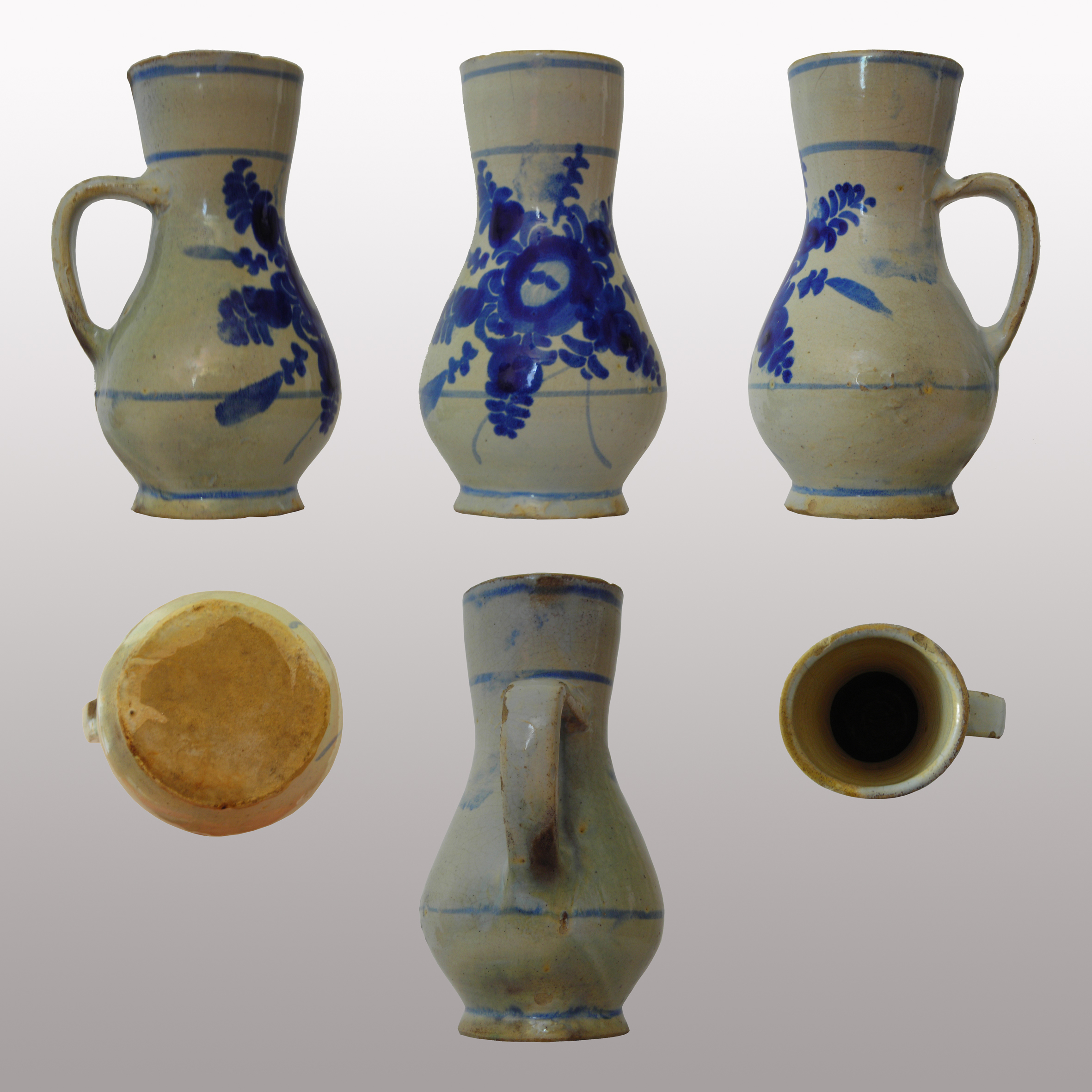 Hungarian jug from 18th or 19th century